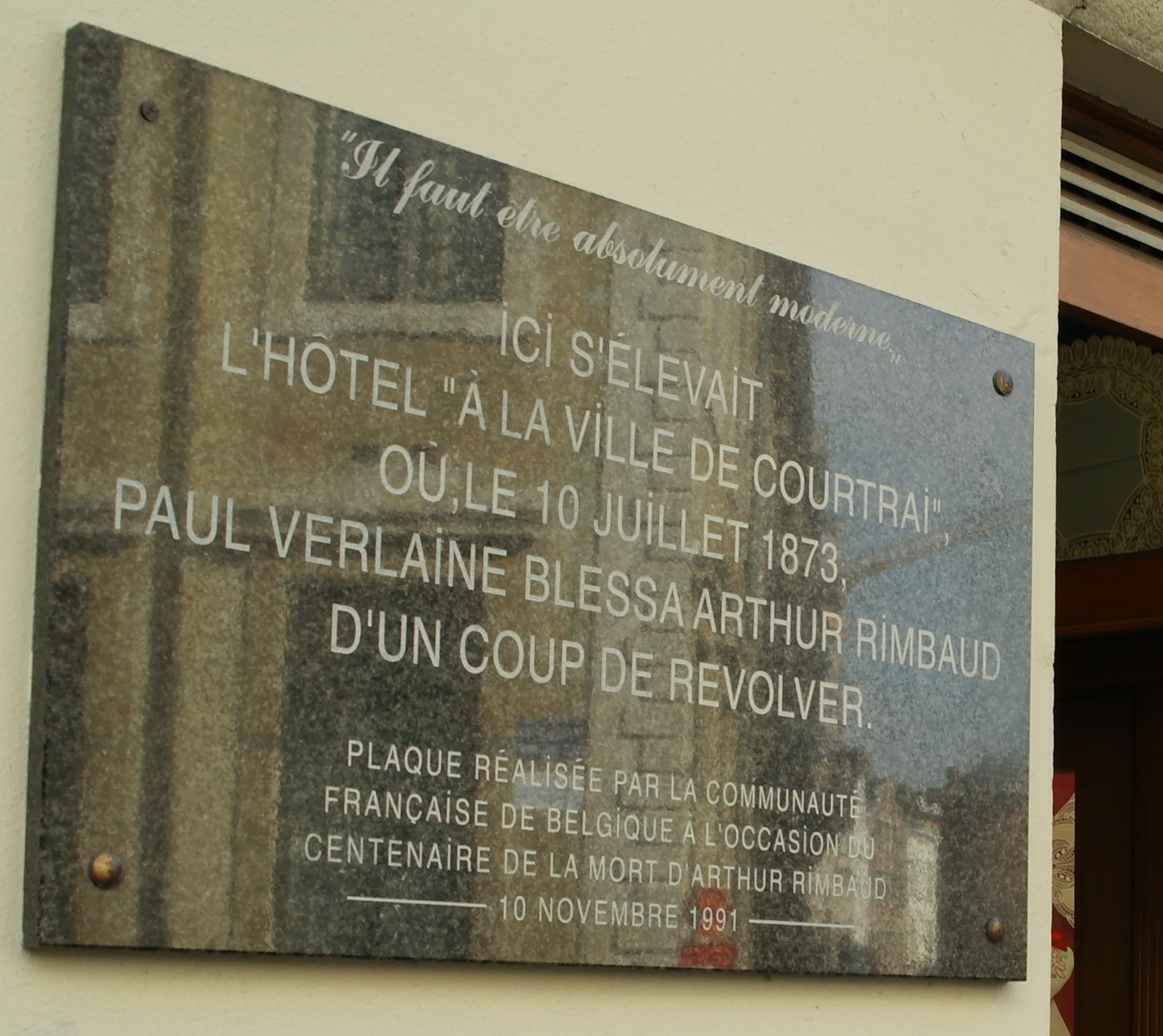 Plaque at the location where Paul Verlaine shot Arthur Rimbaud.